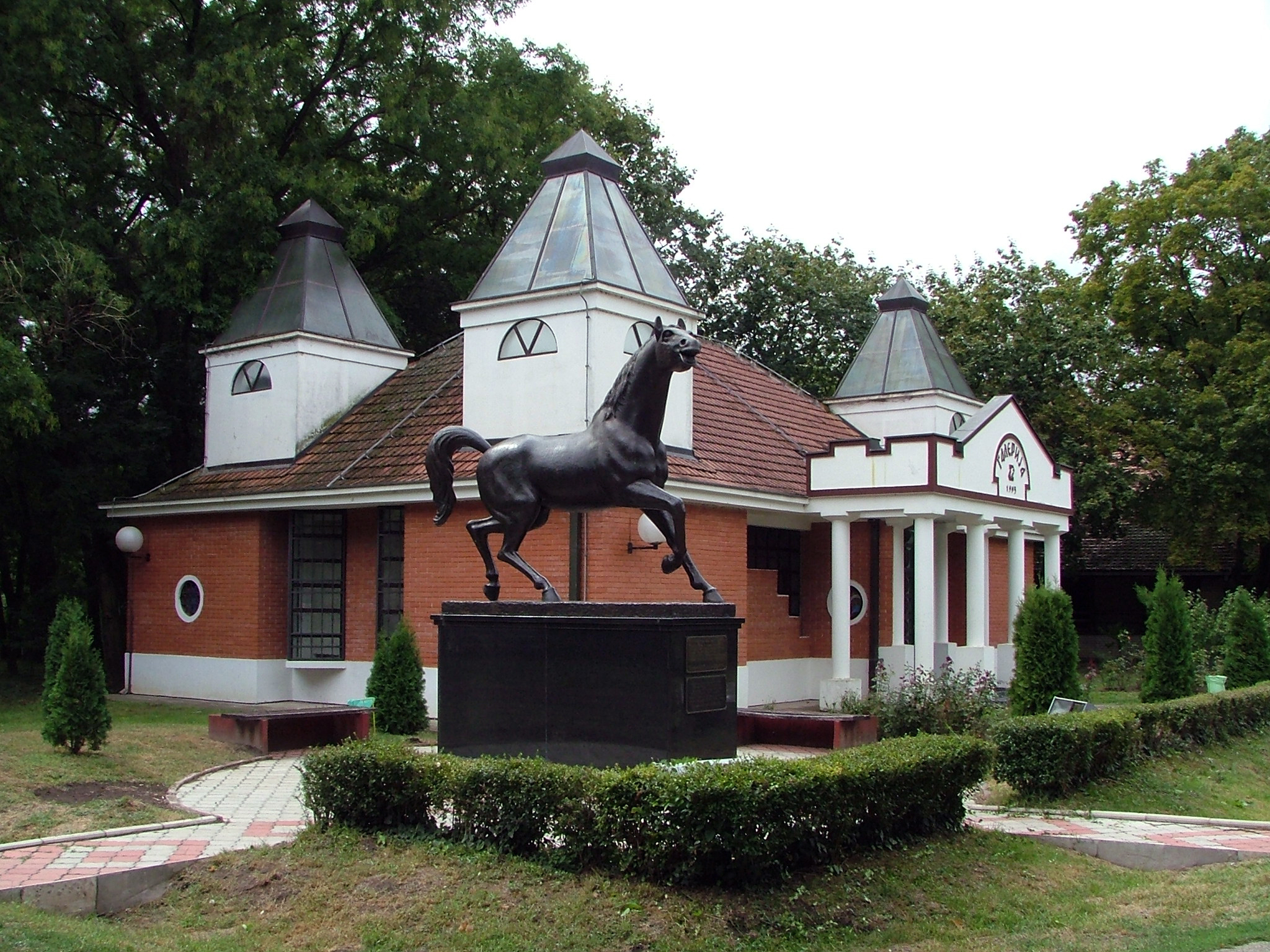 објекат у Зобнатици